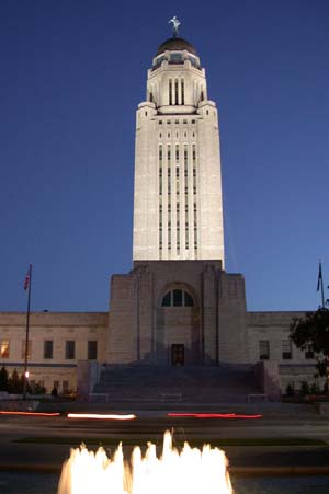 Nebraska State Capitol at night (taken Oct. 3, 2004) © 2004 Matthew Trump